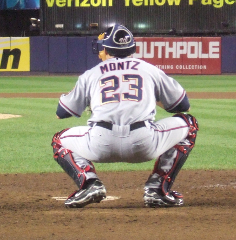 Professional baseball player Luke Montz of the Washington Nationals, playing in Shea Stadium, 2008-09-10